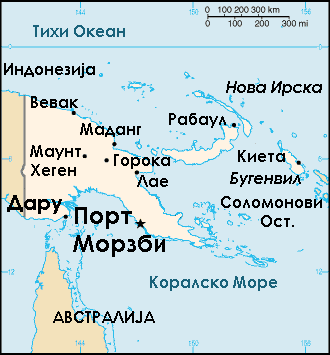 Map of Papua New Guinea on Macedonian language.